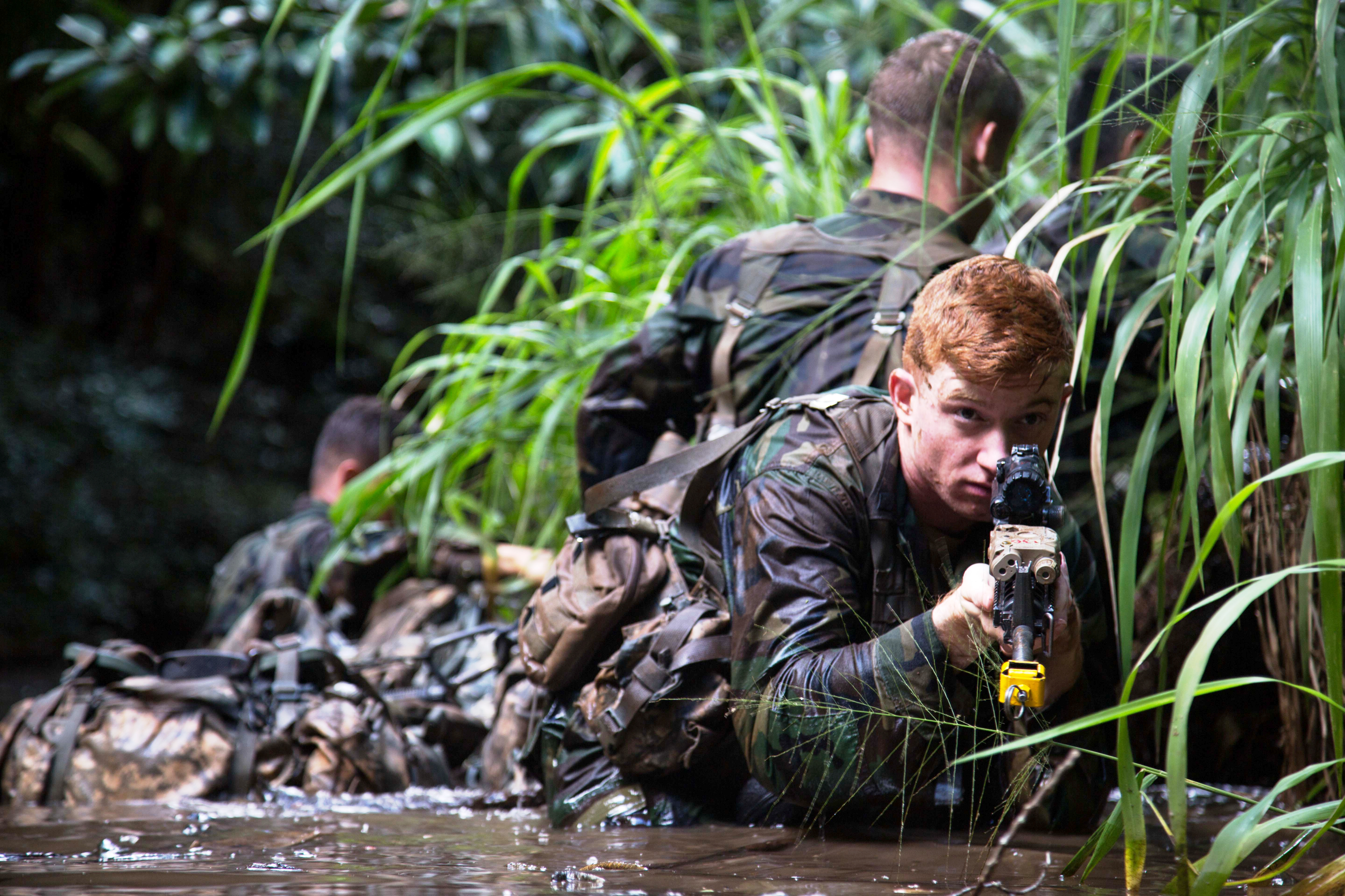 A soldier, assigned to the 25th Infantry Division, sets security while his team secures a riverbank during the waterborne operations portion of the Jungle Operations Training Center at the 25th Infantry Division East Range Training Complex, Hawaii.